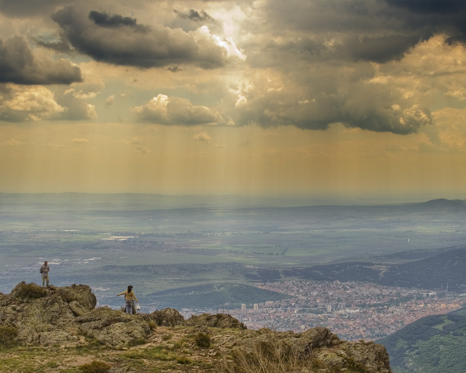 Sliven from Karandila, Bulgaria. – View of the city of Sliven and the eastern Upper Thracian Plain from southern Stara Planina.